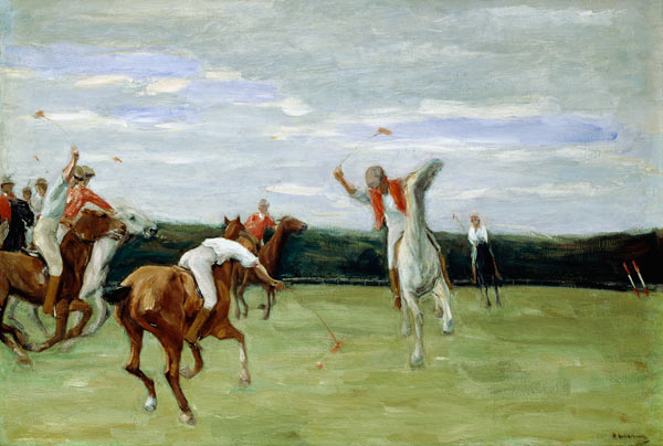 Polo player in Jenischpark, Hamburg